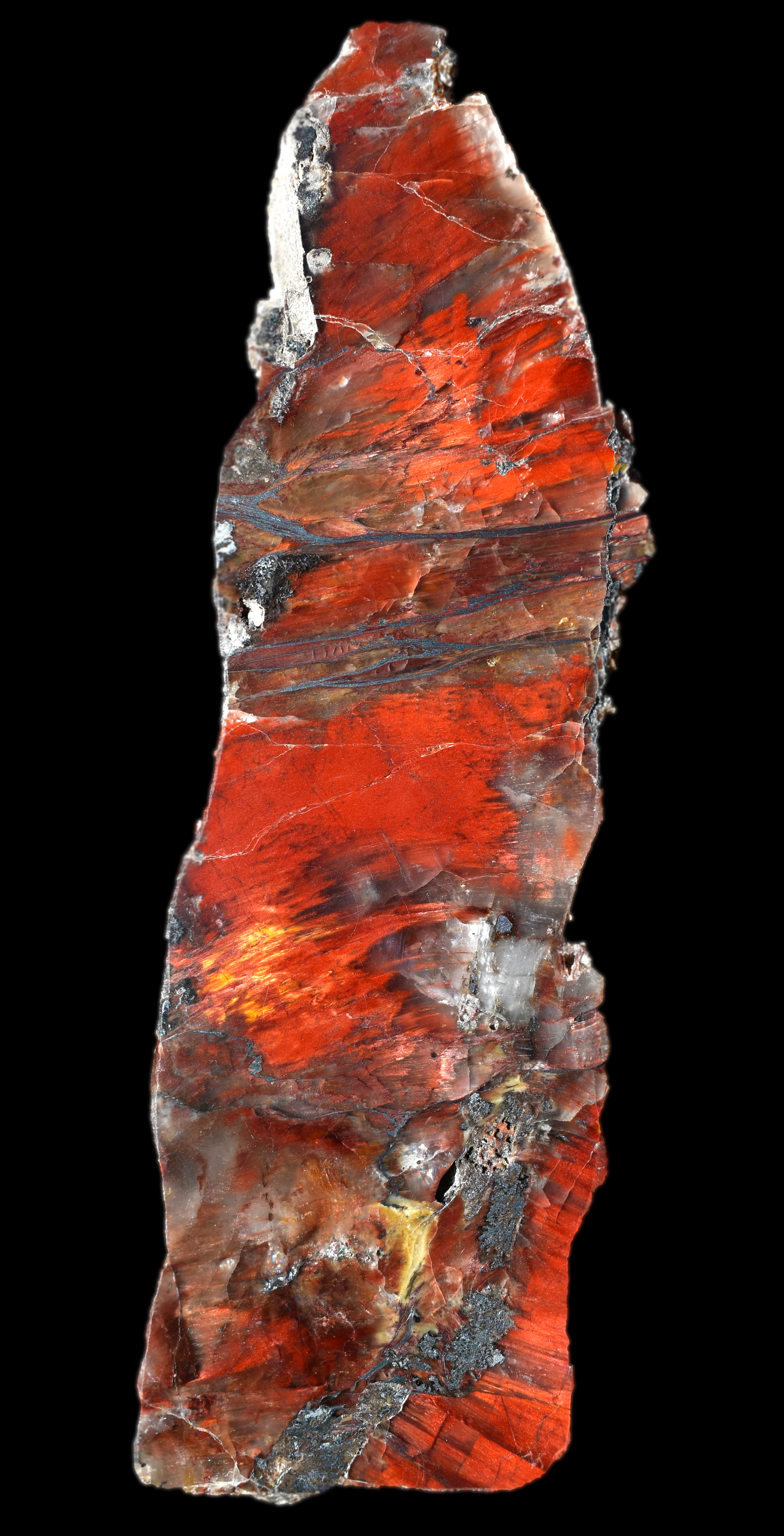 Binghamite. A variety of Chalcedony Chatoyant chalcedony included with dense and parallel fibers of Goethite and/or Hematite. Similar to Tiger's Eye. Originally described from Cuyuna North Range, Crow Wing Co., Minnesota, USA.